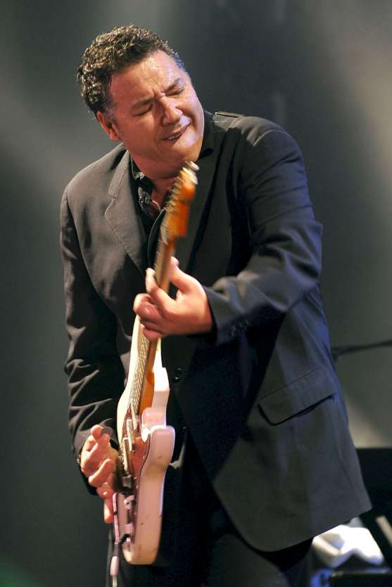 The singer Carlos Goñi en 2009.